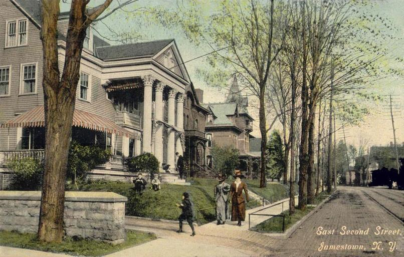 East Second Street, Jamestown, New York; from a c. 1910 postcard published by S. H. Knox & Company.